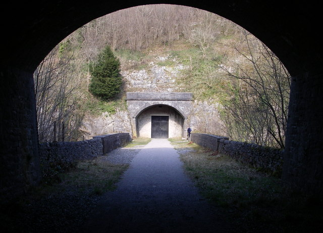 Chee Tor Tunnel The west portal of the now defunct tunnel looking across the viaduct over the Wye river from the next tunnel (still in use).